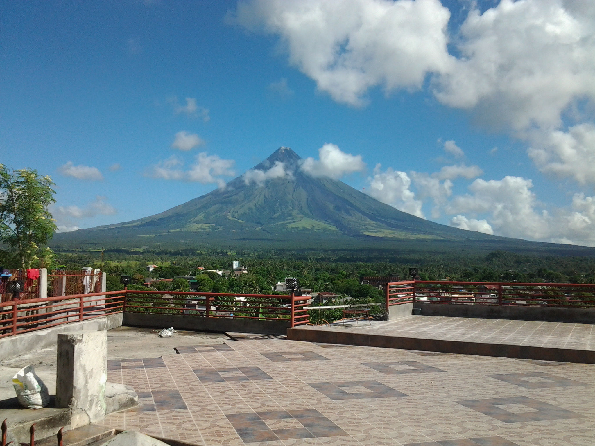 Mount Mayon, Legazpi, Albay